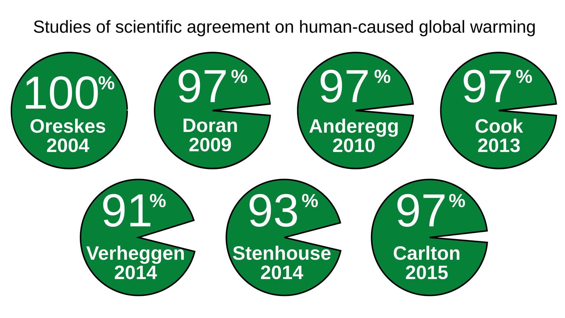 This graphic by John Cook from "Consensus on Consensus" by Cook et al. (2016) uses pie charts to illustrates the results of seven climate consensus studies by Naomi Oreskes, Peter Doran, William Anderegg, Bart Verheggen, Ed Maibach, J. Stuart Carlton, and John Cook.